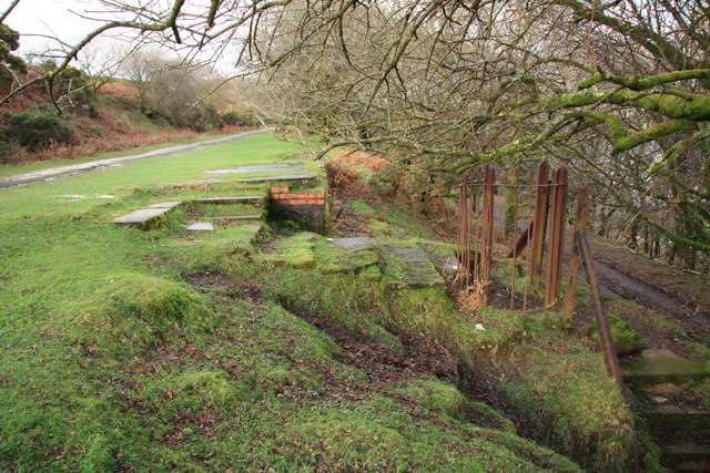 Princetown to Yelverton Railway The remains of Burrator and Sheepstor Halt.